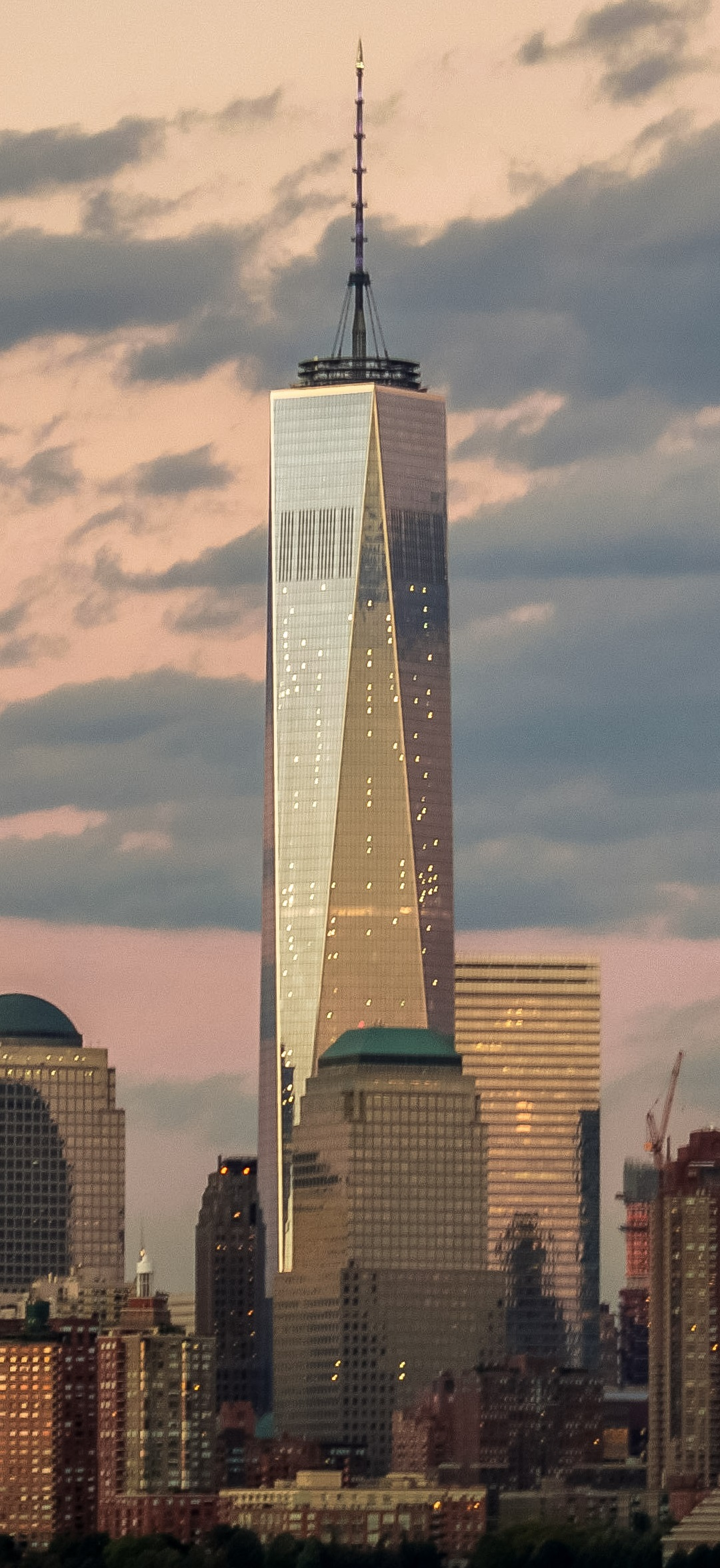 One World Trade Center as dusk in 2014. Cropped version of the original.